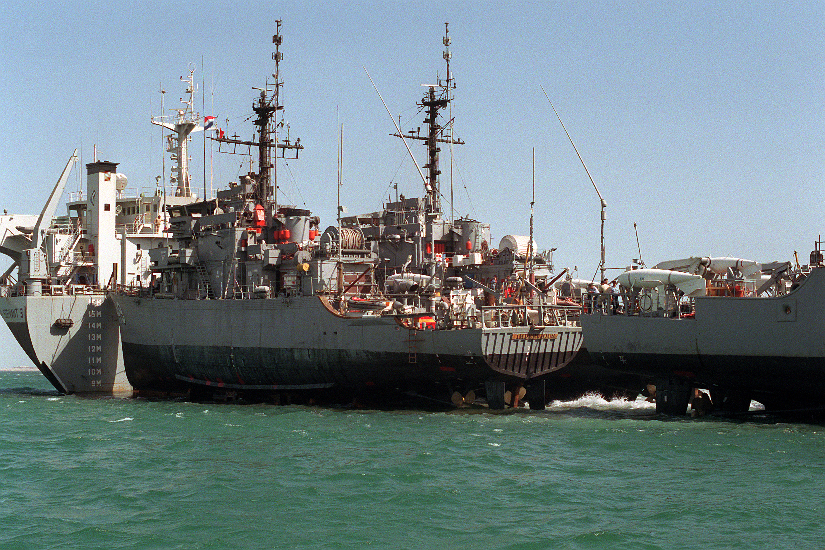 The ocean minesweeper USS IMPERVIOUS (MSO-449) and other vessels are positioned on the partially submerged deck of the Dutch HEAVY LIFT ship SUPER SERVANT 3 prior to offloading in support of Operation Desert Shield. Information about Super Servant 3 may be found at IMO 8025331. A ship can change her name and flag state through time, but the IMO number remains the same through the hull's entire lifetime. Therefore, it's useful to identify a ship through her IMO number.